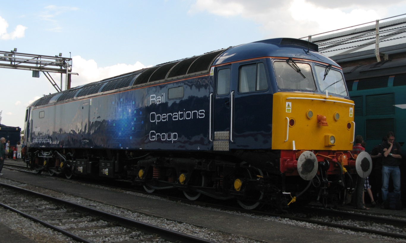 The Rail Operations Group's 47813 on display at the Old Oak Common Depot open day in 2017.